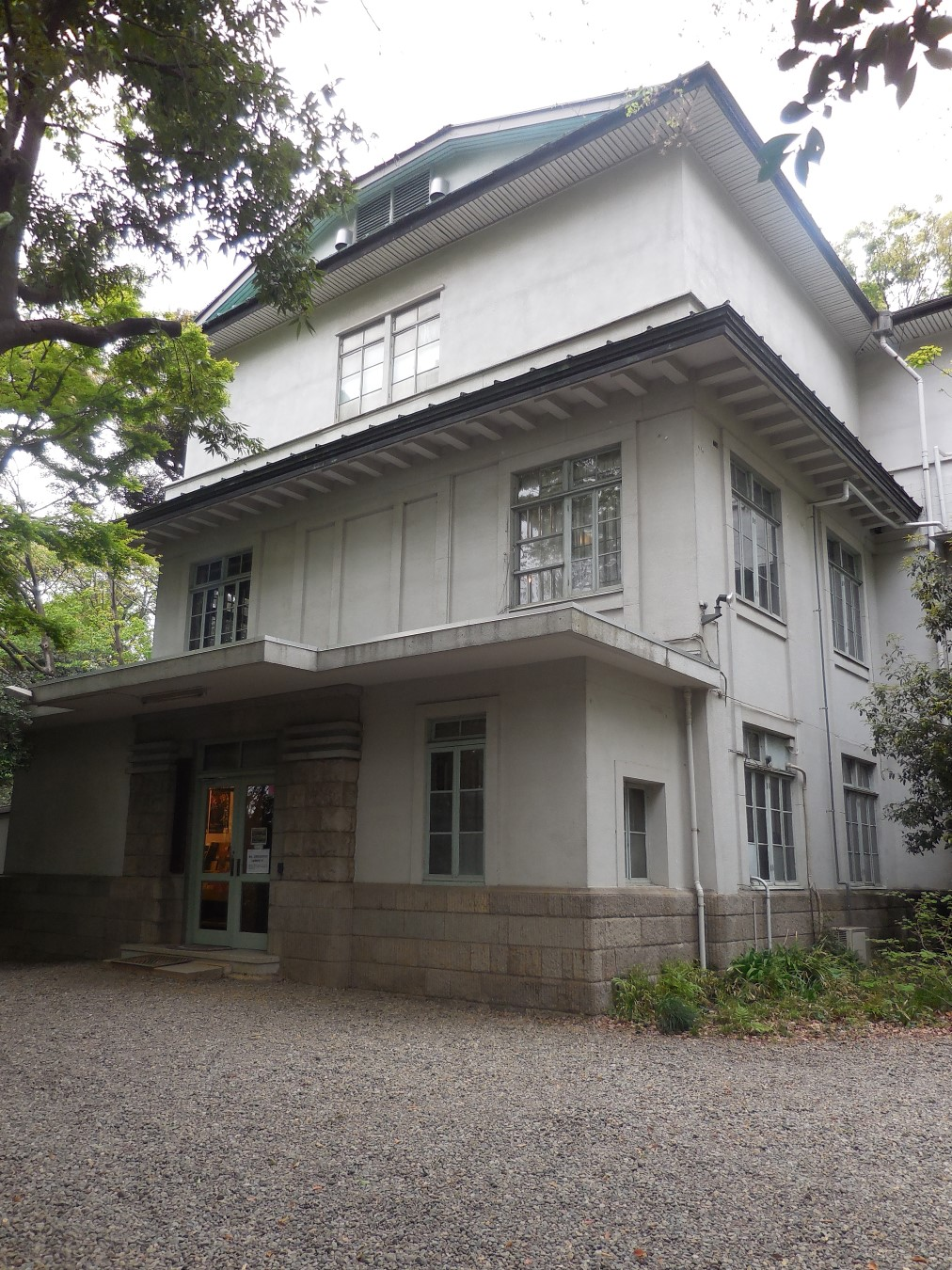 Eisei Bunko Museum Tokyo